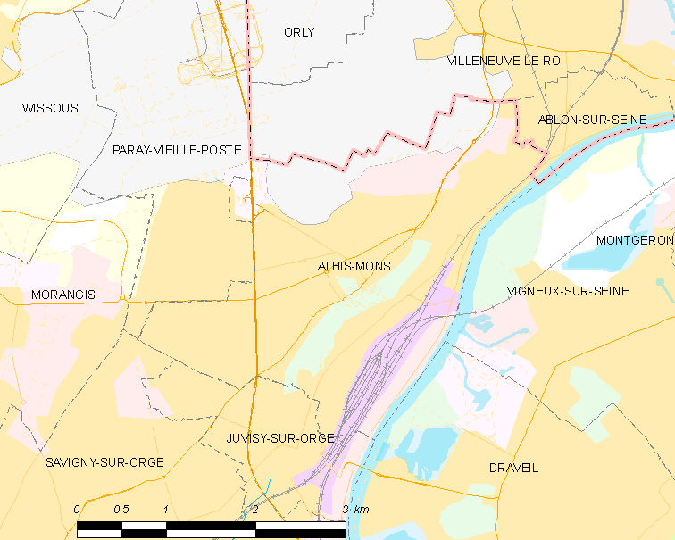 Map of French municipality Athis-Mons